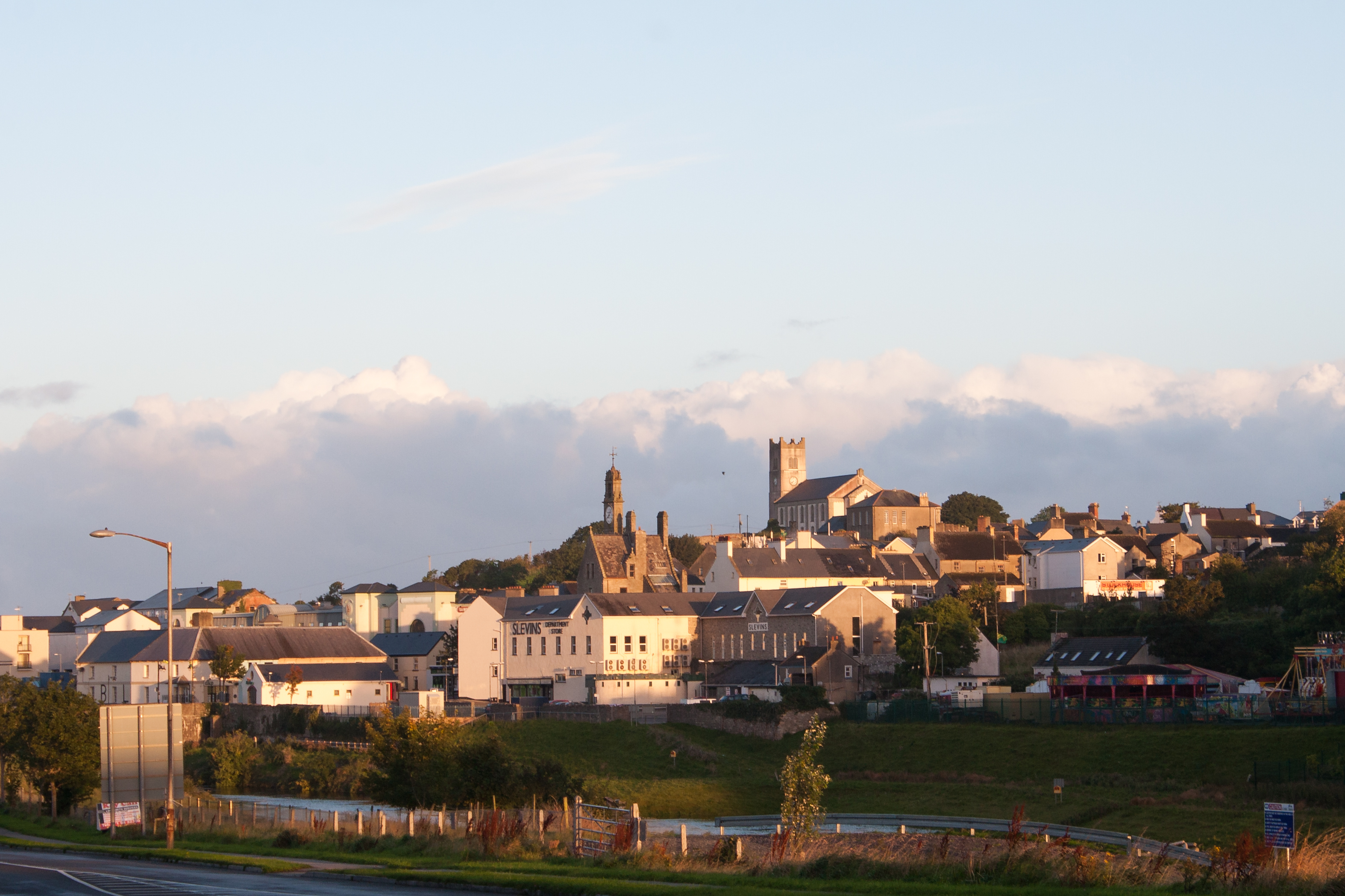 Ballyshannon in the morning sun.